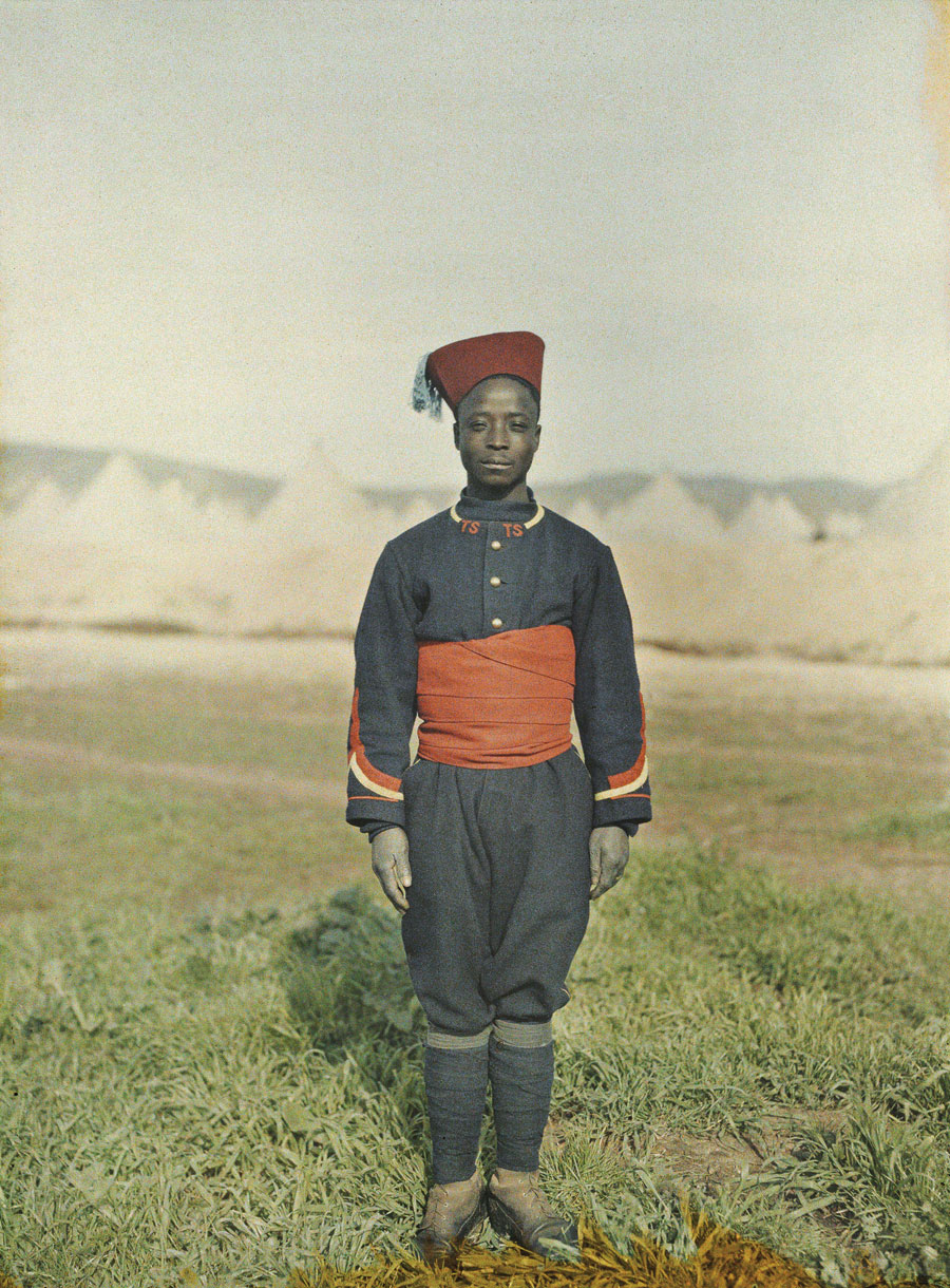 Senegalese sniper in Fez, Morocco, 1913. Autochrome from Albert Kahn's Archives de la planète.